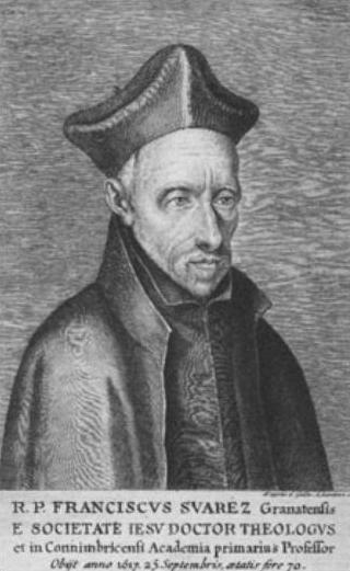 Francisco Suarez, S.I. (1548-1617) Suárez is considered the most brilliant and influential early-modern philosophers. He wrote on metaphysics, theology and epistemology. Suárez was born at Granada of Spanish-Jewish descent. Suárez joined the Jesuits. He taught at Rome and in Spain and Portugal. His most important philosophical work was the Disputationes metaphysicae (1597). De lege ac Deo legislatore (About law and God the legislator,1612) summarized a series of lectures that Suarez gave in the 1590's about divine and human law. It influenced political philosophy and international law.